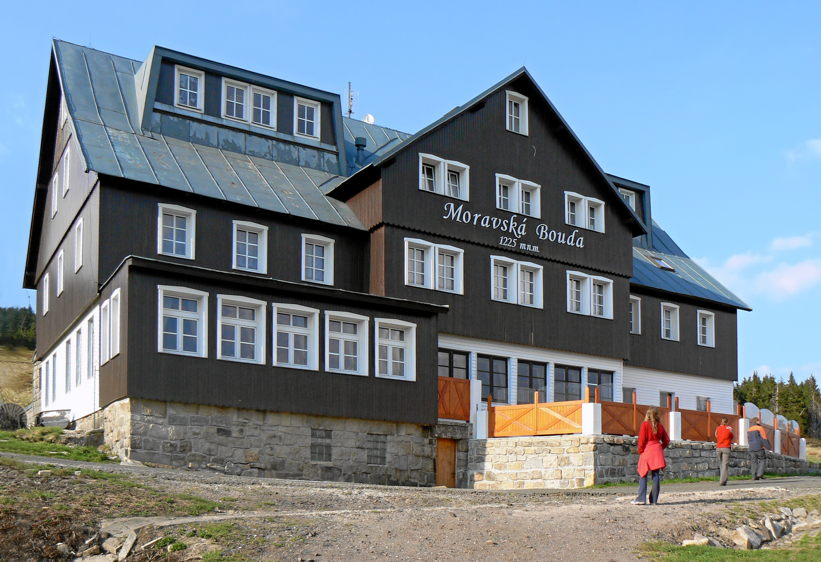 One of the huts (Moravská bouda) in Krknoše (on Giant Mountains) national park